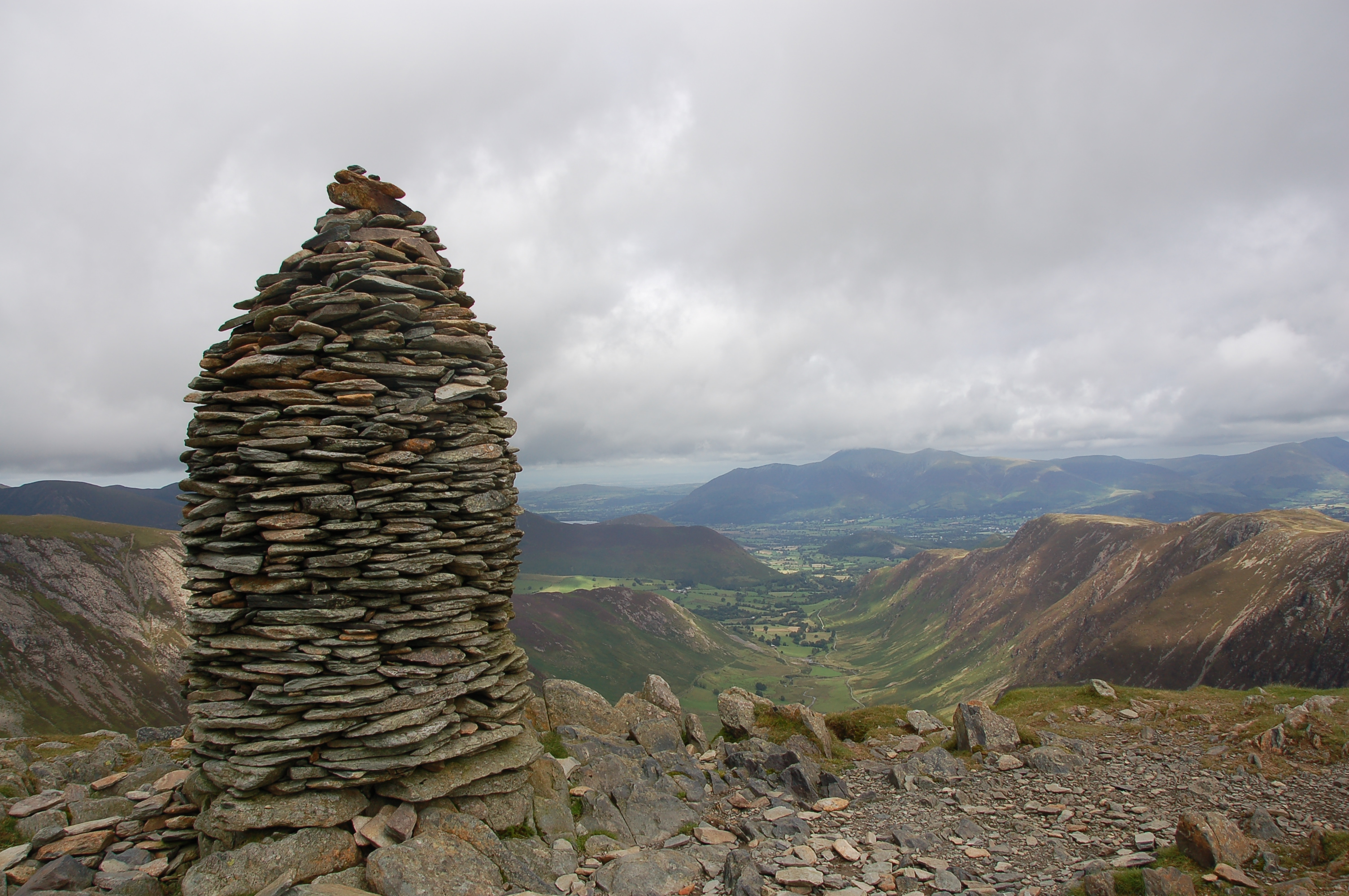 Dale Head summit cairn taken by Alfred Gay on the 7th of August 2007. This image is relevant to the Dale Head article.